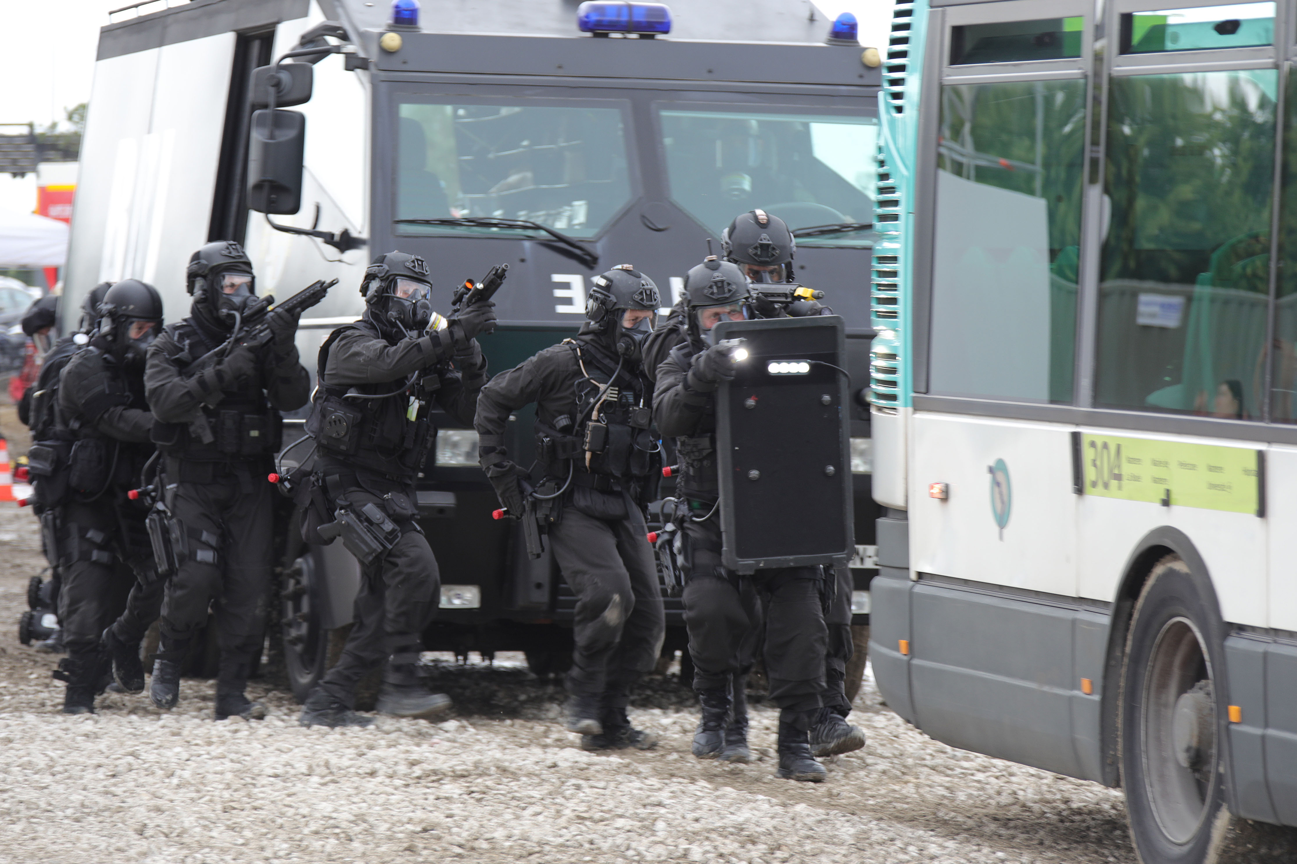 French police officers of the Paris BRI-PP during a demonstration.